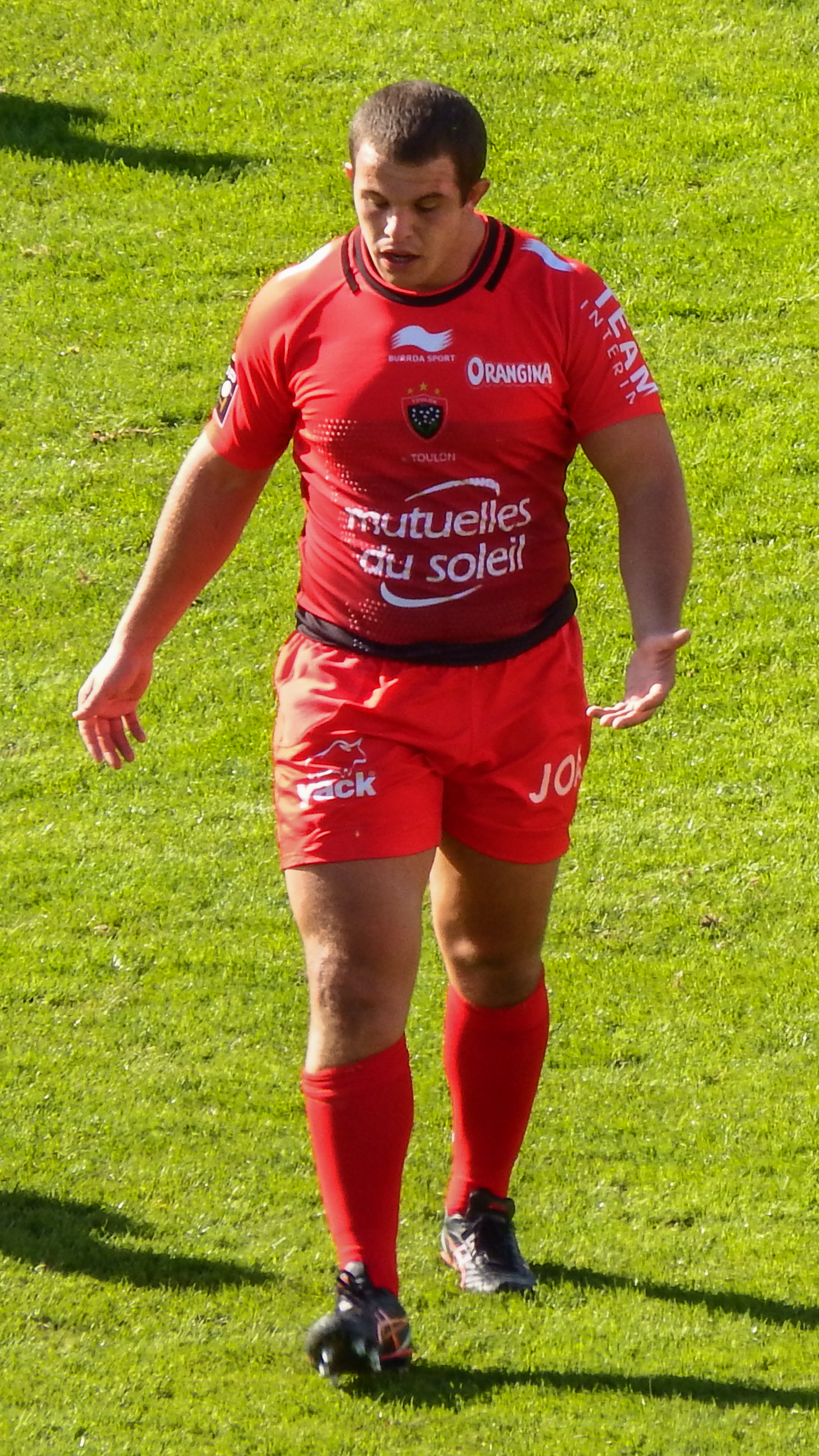 2015–16 Top 14 season — 17 October 2015, Stade Amédée-Domenech. Match between: CA Brive — RC Toulonnais